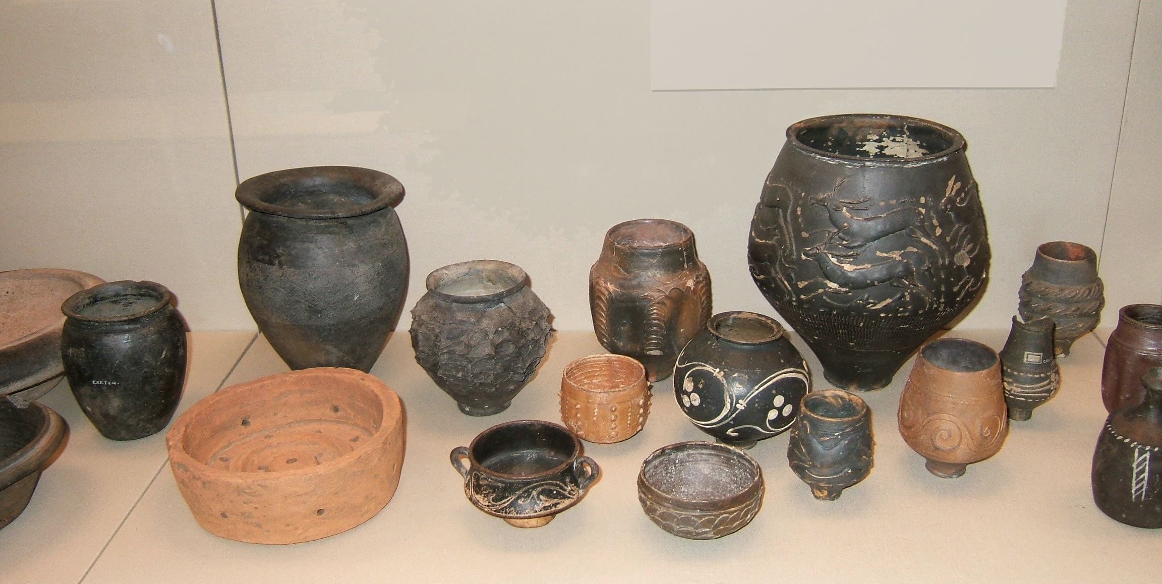 Selection of Roman pottery found in Britain, Romano-British and imported. 1st to 4th centuries AD. British Museum, London.